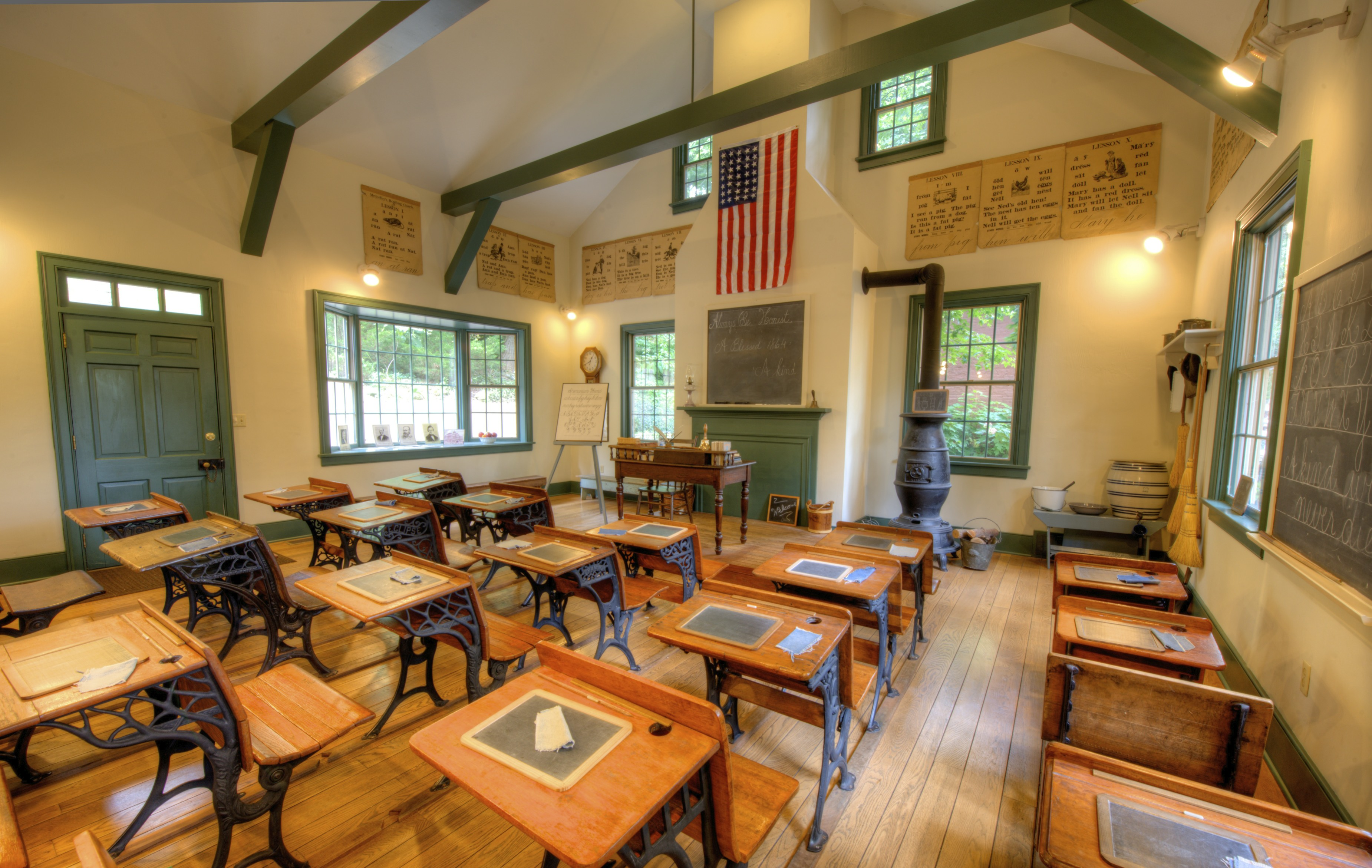 Interior of Roscoe School.